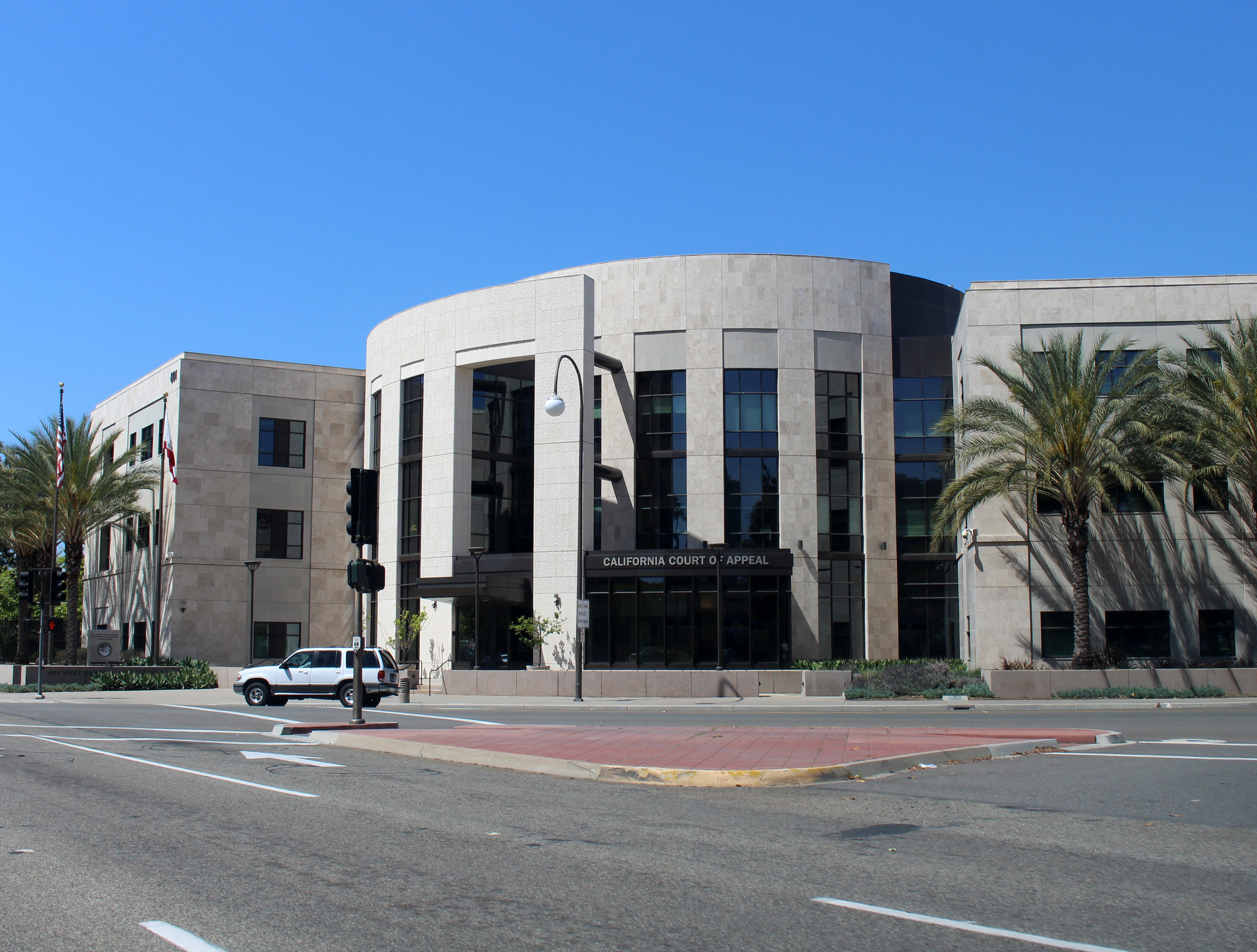 The courthouse of the California Court of Appeal, Fourth District, Division Three, in Santa Ana, California. Photographed by user Coolcaesar on April 11, 2015.